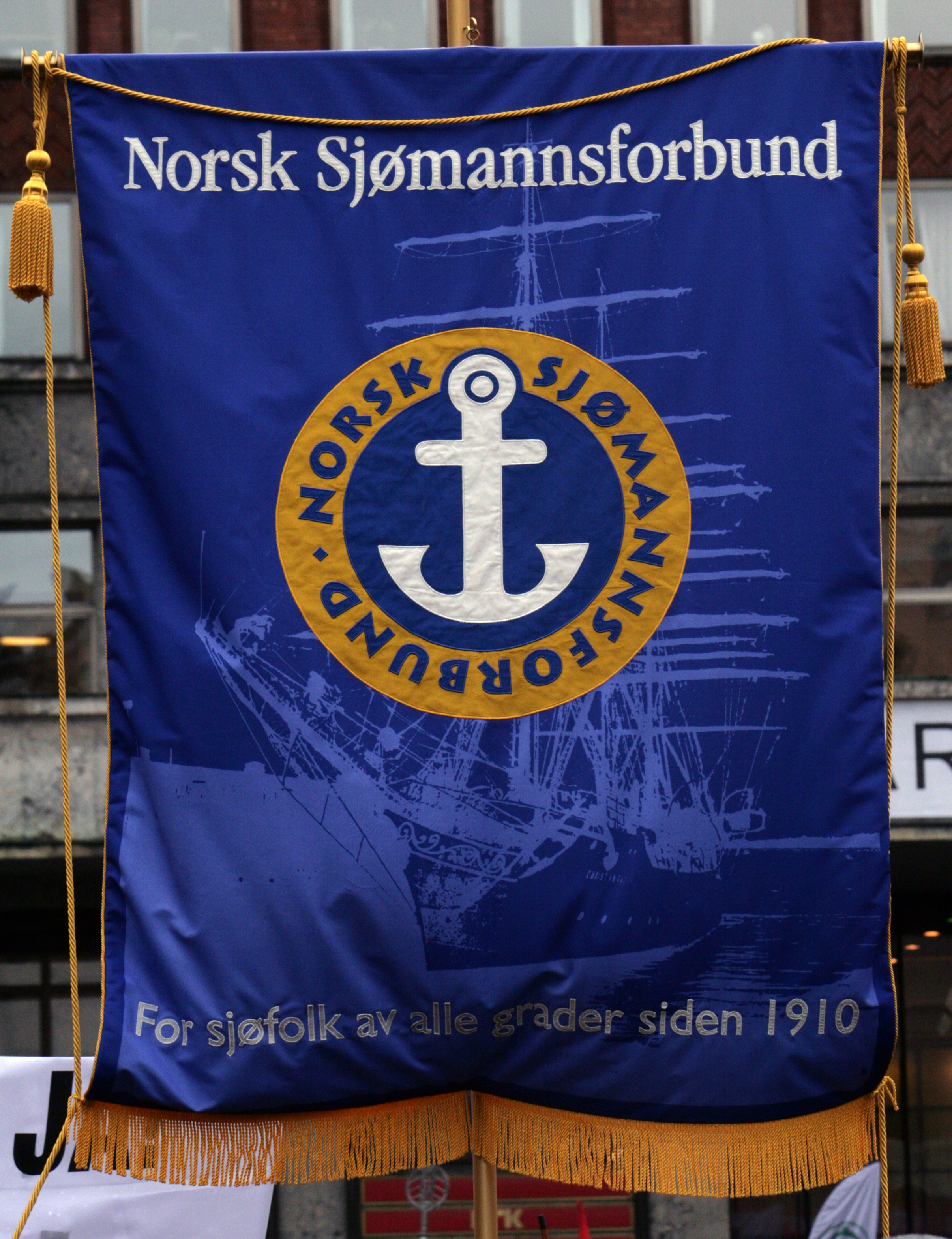 Banner of the Norwegian Seafarers' Union Norsk (bokmål): Norsk Sjømannsforbunds fane